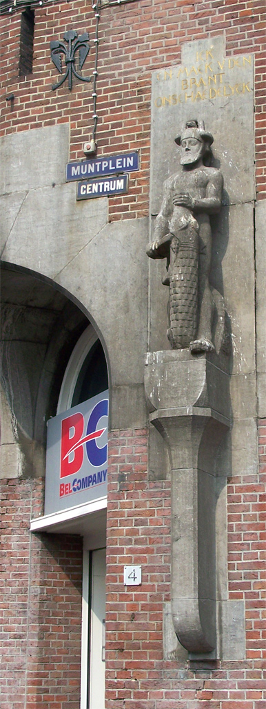 Detail of an ornament on the office building of the former insurancecompany "De Nederlanden van 1845" at the Muntplein in Amsterdam, designed by H.P.Berlage. The ornaments where made by Lambertus Zijl. It is Hercules opening up the mouth of a crocodile. Above his head there is written; "ick en mack v den brant onschaedelyck" (I Will distinguish the fire)